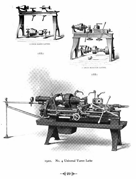 A selection of Warner & Swasey turret lathe models, from 1880, 1881, and 1920.